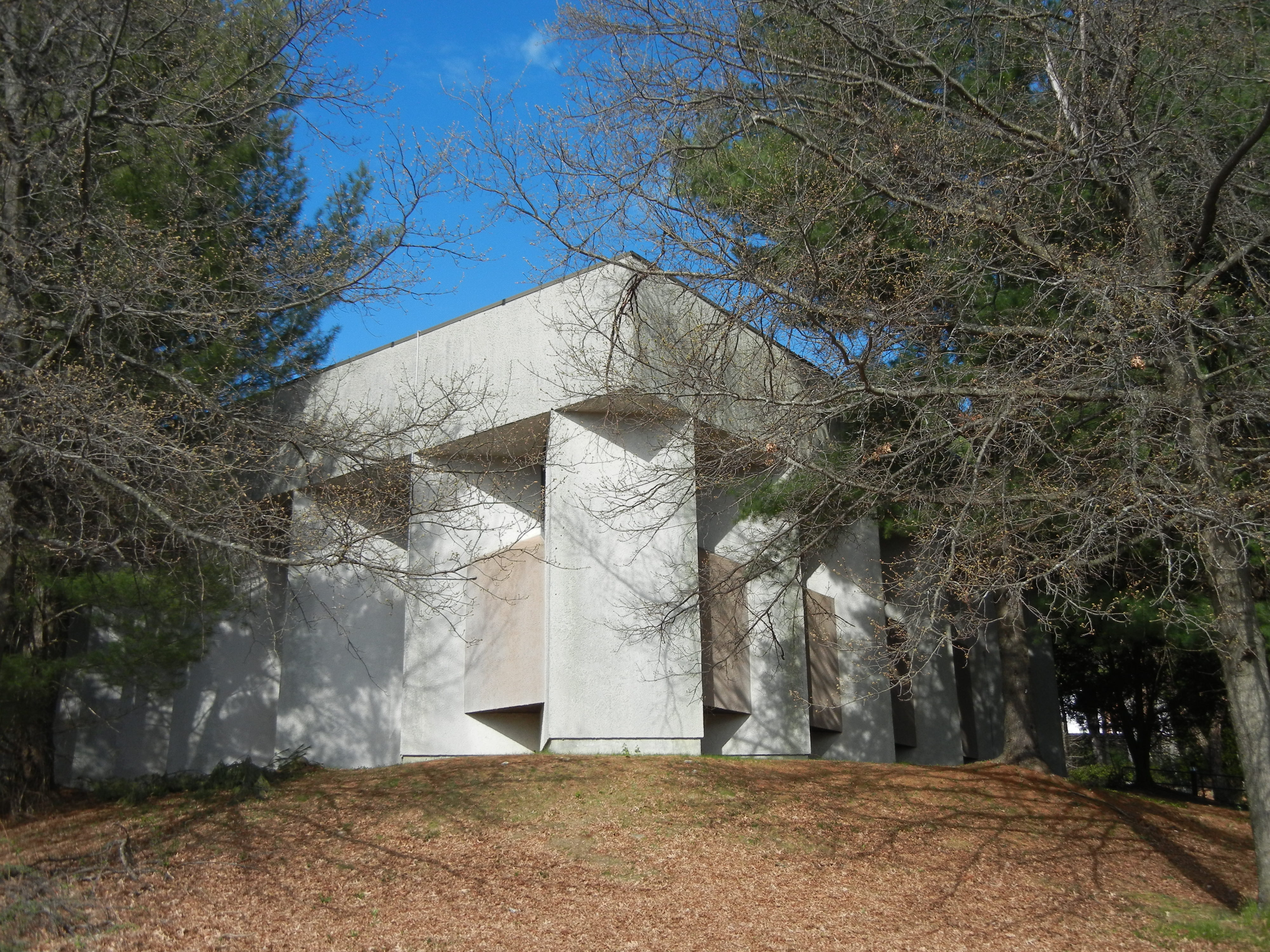 Temple Emanuel Sinai at 661 Salisbury Street in Worcester, Massachusetts as viewed from Jewish Community Center